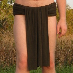 A one-piece loincloth, wrapped around the waist several times and tied in back.